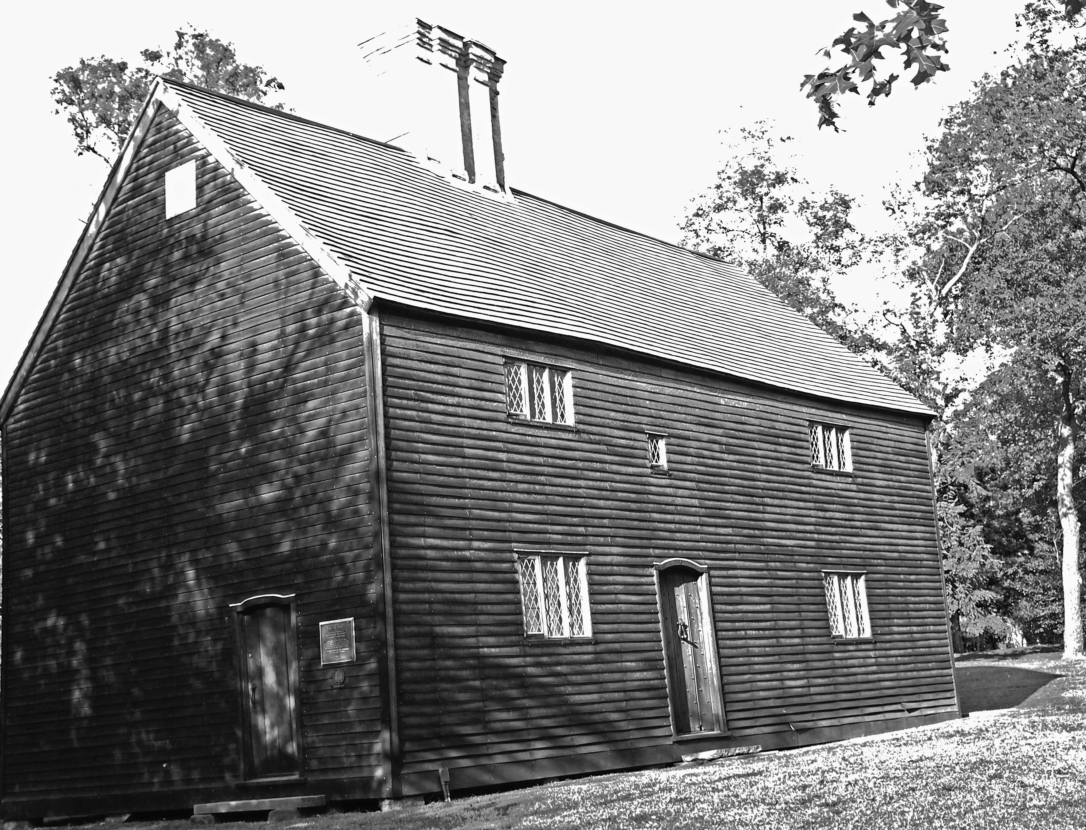 The Old House